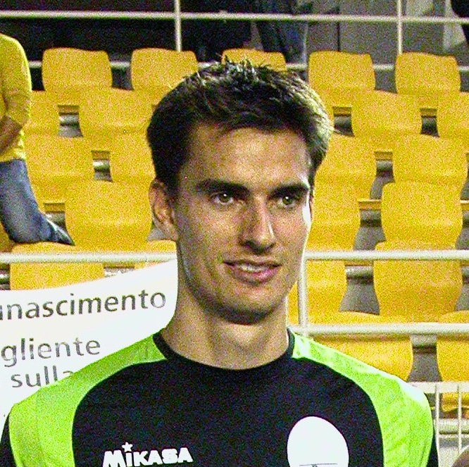 Dutch volleyball player Wytze Kooistra after his first game with the M. Roma Volley team